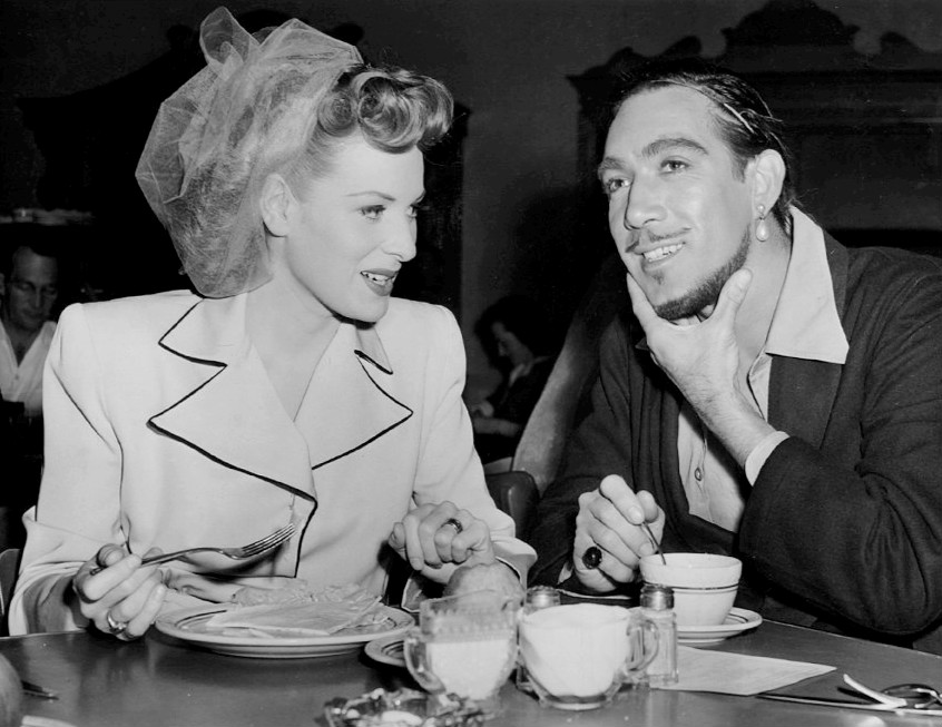 Photo of Maureen O’Hara and Anthony Quinn during the filming of ‘’Sinbad the Sailor’’. Both are out of costume for a lunch break.